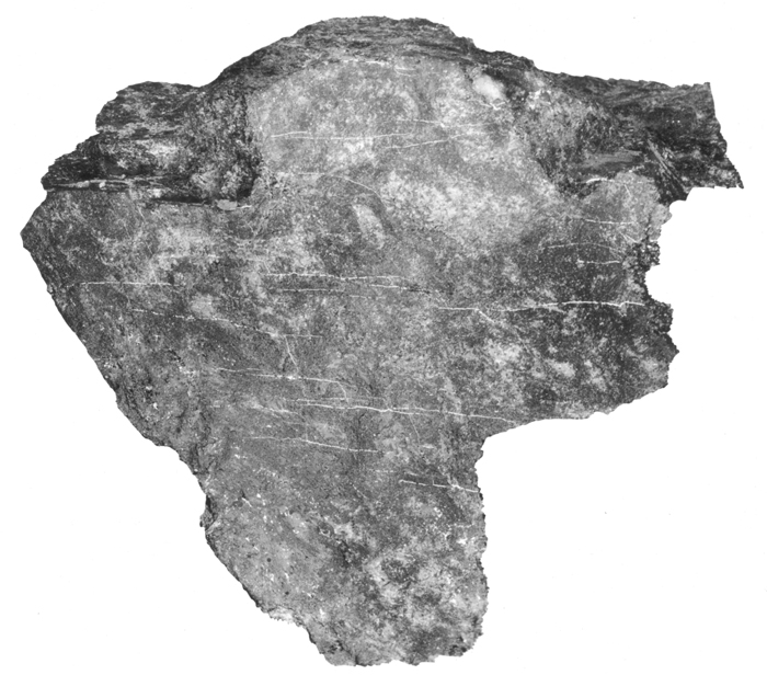 Polished slabshowinf gold veinlets (they appear white) in Carolina gneiss; Battle Branch mine. Lumpkin County, Georgia. 1935.